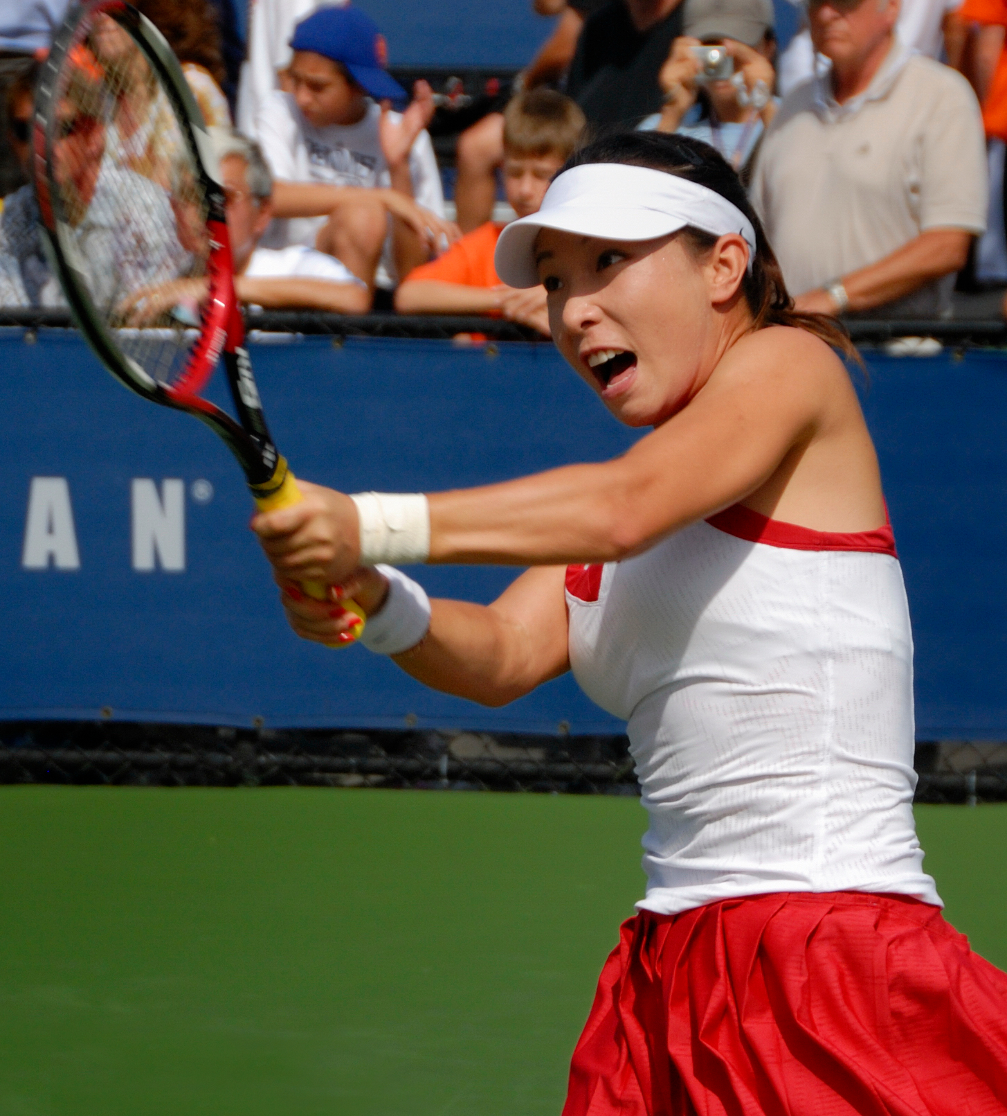 Chinese female tennis player, Zheng Jie at 2008 US Open